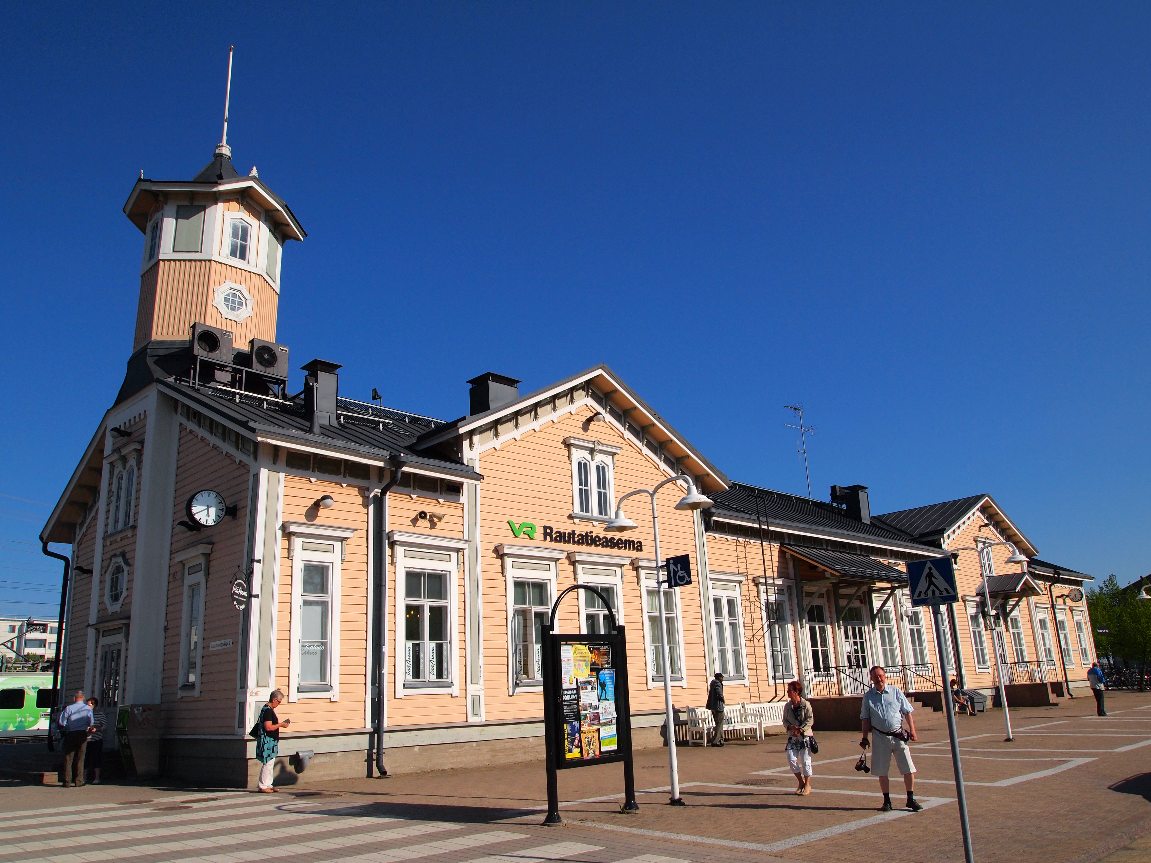 Train station in Kerava. This photograph was taken with an Olympus E-PL1